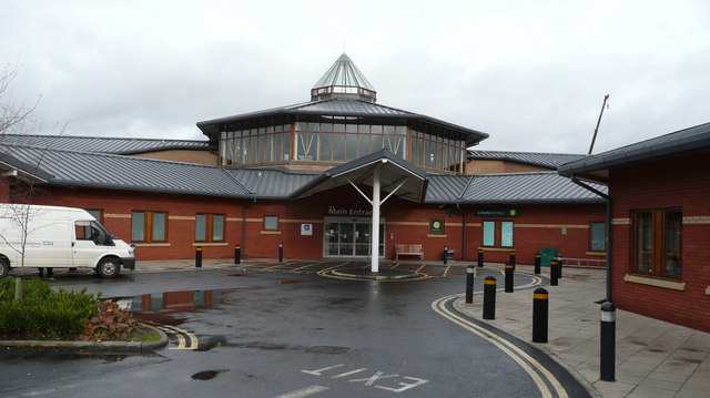 Tiverton and District Hospital A new building (2005) serving the local community with maternity services, minor injuries and day-case units, as well as housing a GP surgery and pharmacy.